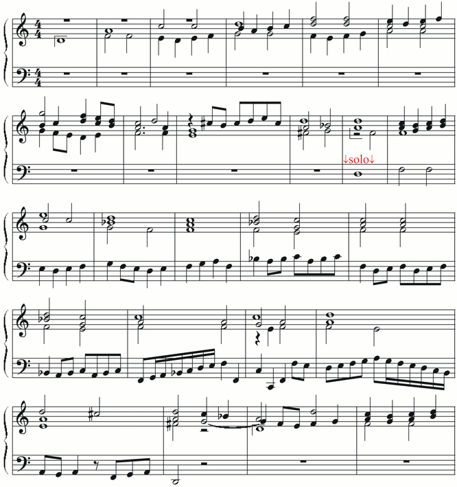 begin of the "Tento de registo baixo de 1.° tom" by Sebastián Aguilera de Heredia